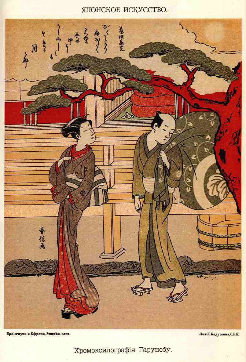 Illustration from the "Japan" article of the Brockhaus and Efron Encyclopedic Dictionary